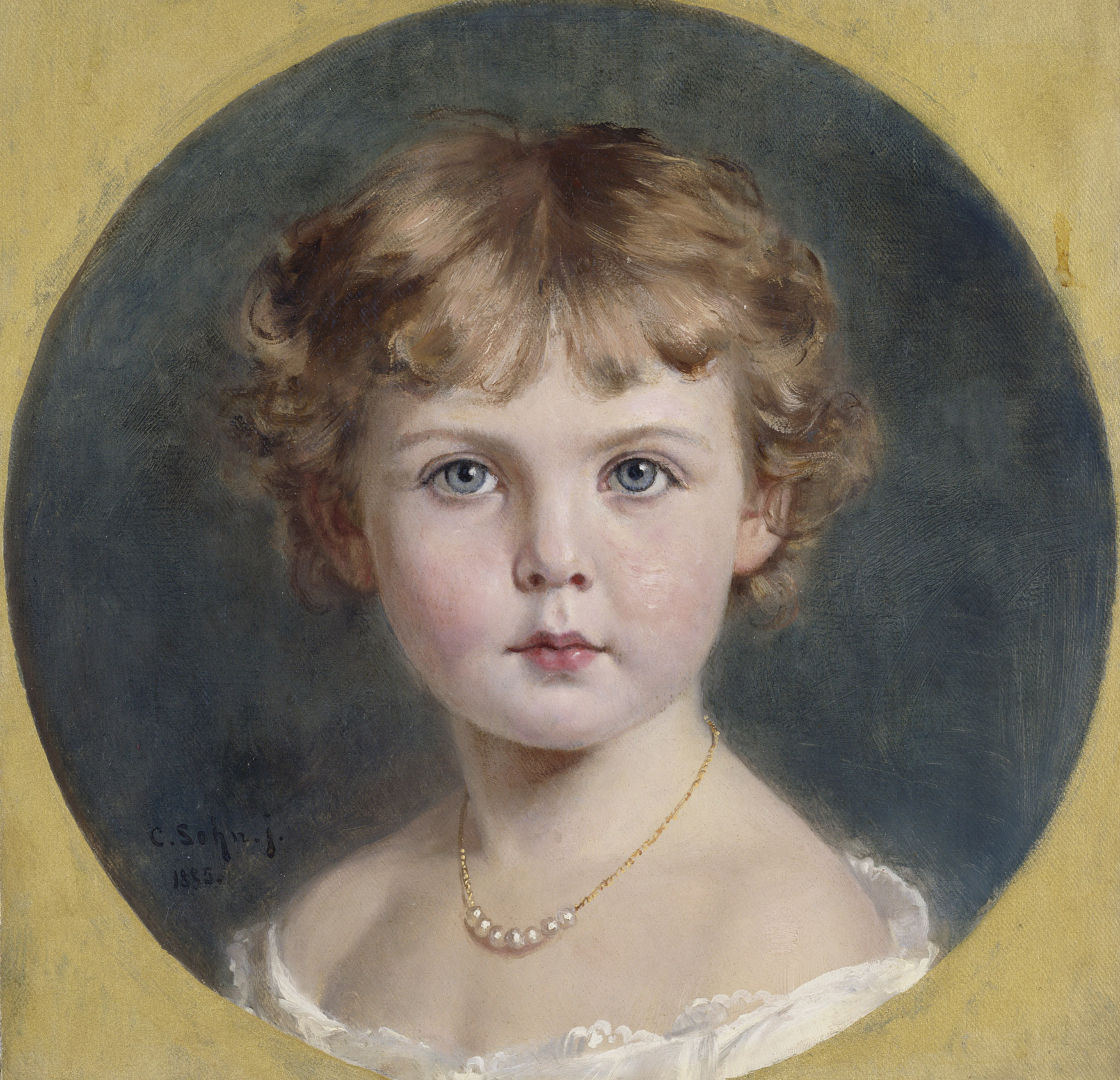 Princess Margaret of Connaught (1882-1920) Creator: Carl Rudolph Sohn (1845-1908) (artist) Creation Date: Signed and dated 1885 Materials and techniques: Oil on canvas Dimensions: 37.9 x 38.1 cm Acquirer: Queen Victoria, Queen of the United Kingdom (1819-1901) Provenance: Painted for Queen Victoria Description: Princess Margaret (1882-1920), called Daisy by the family, was one of Queen Victoria’s grandchildren. Queen Victoria noted in her Journal that Sohn had done ‘a lovely head of Daisy’. Signed and dated: C. Sohn . j / 1885. Inscribed on the back with the names of the artist and sitter and the date, 1884.